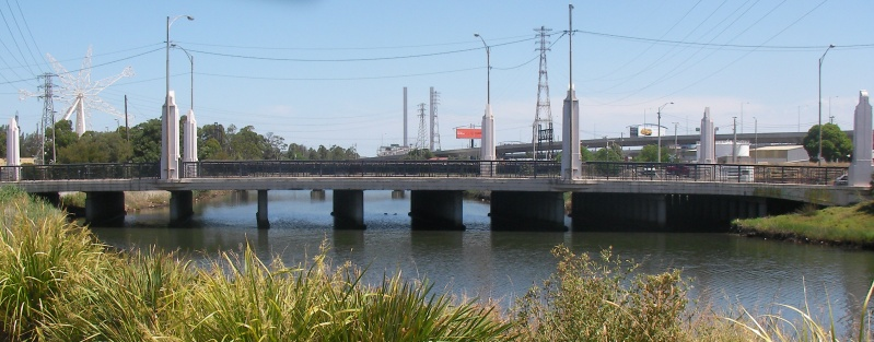 Dynon Road bridge over Moonee Ponds Creek